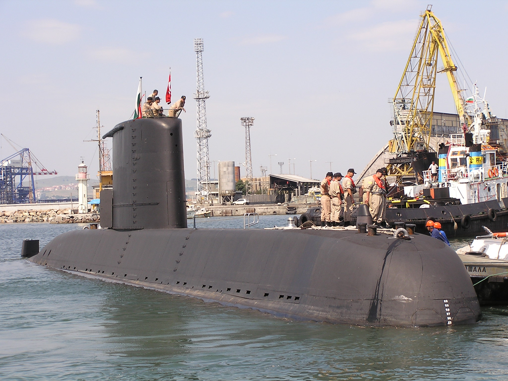 TCG Sakarya (S-354), Burgas, July 16, 2005.